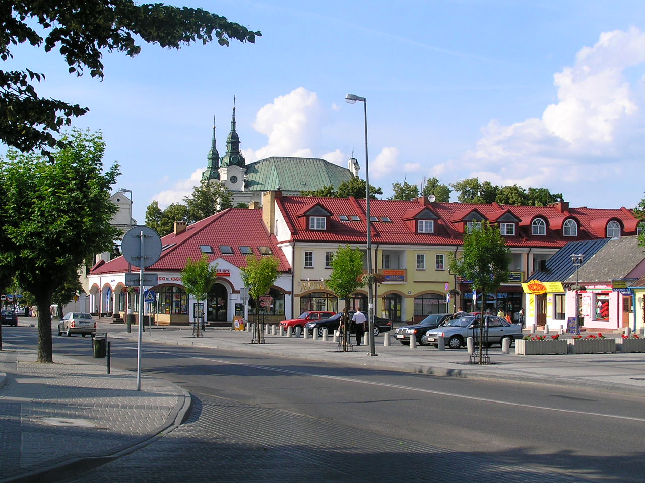 autor: Yarek shalom 14:01, 23 October 2006 (UTC)yarek shalom